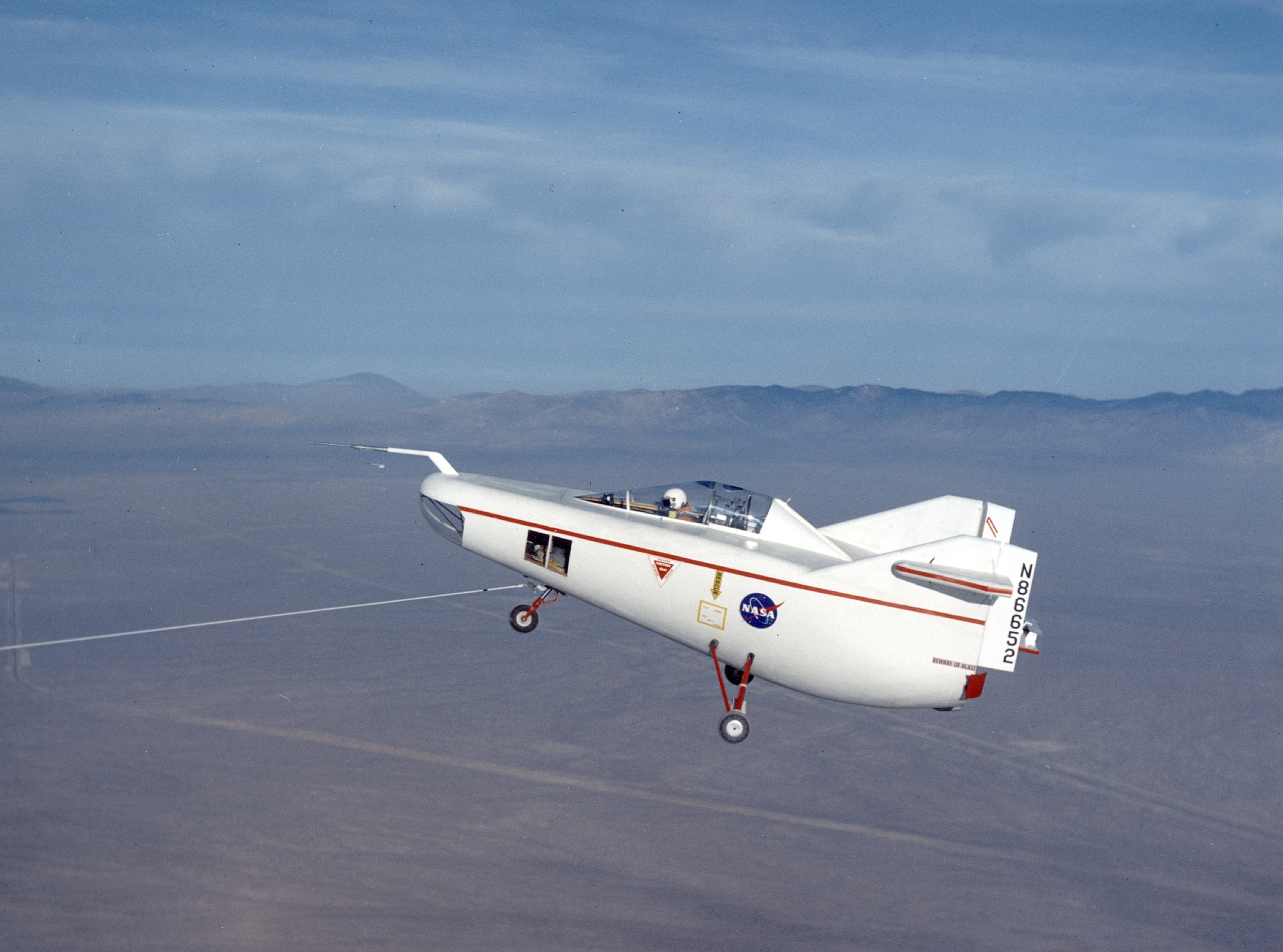 NASA M2-F1 Lifting Body in first flight being towed by a C-47.